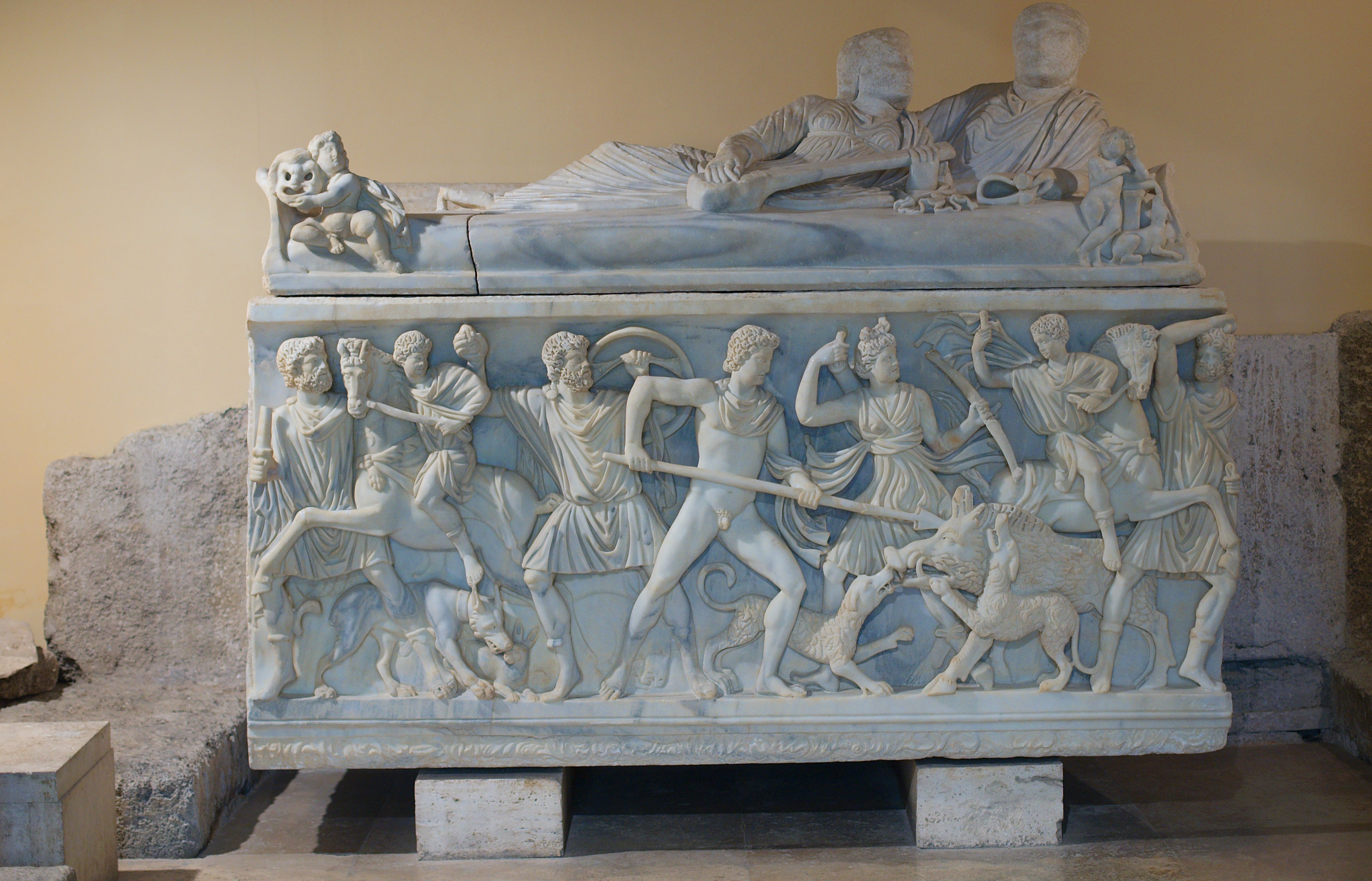 Sarcophagus with the Calydonian hunt, representing the hero Meleager and the goddess Artemis. Proconnesian marble, Roman artwork.